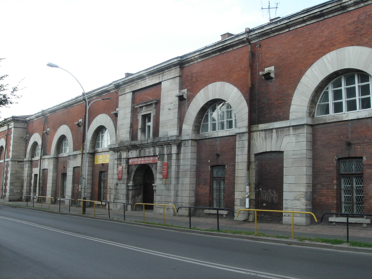 Cavalier (fortification) of bastion VI in Zamość (nowadays high school)